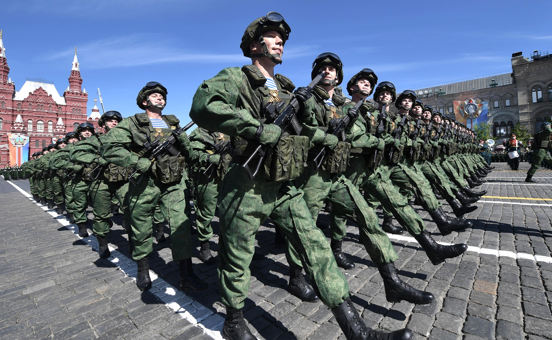 2018 Moscow Victory Day Parade